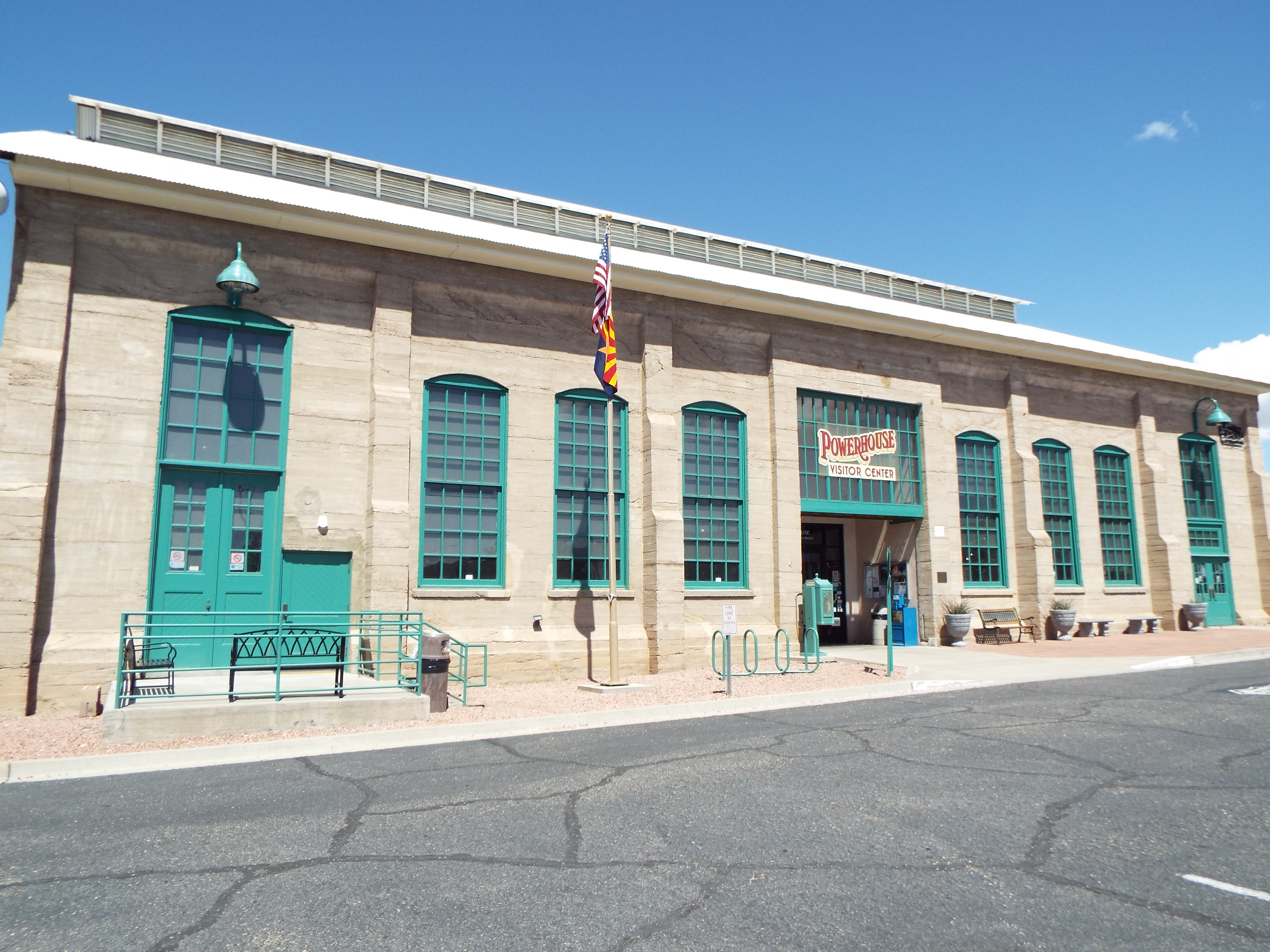 Desert Water and Power Co-1907 in Kingman, Az